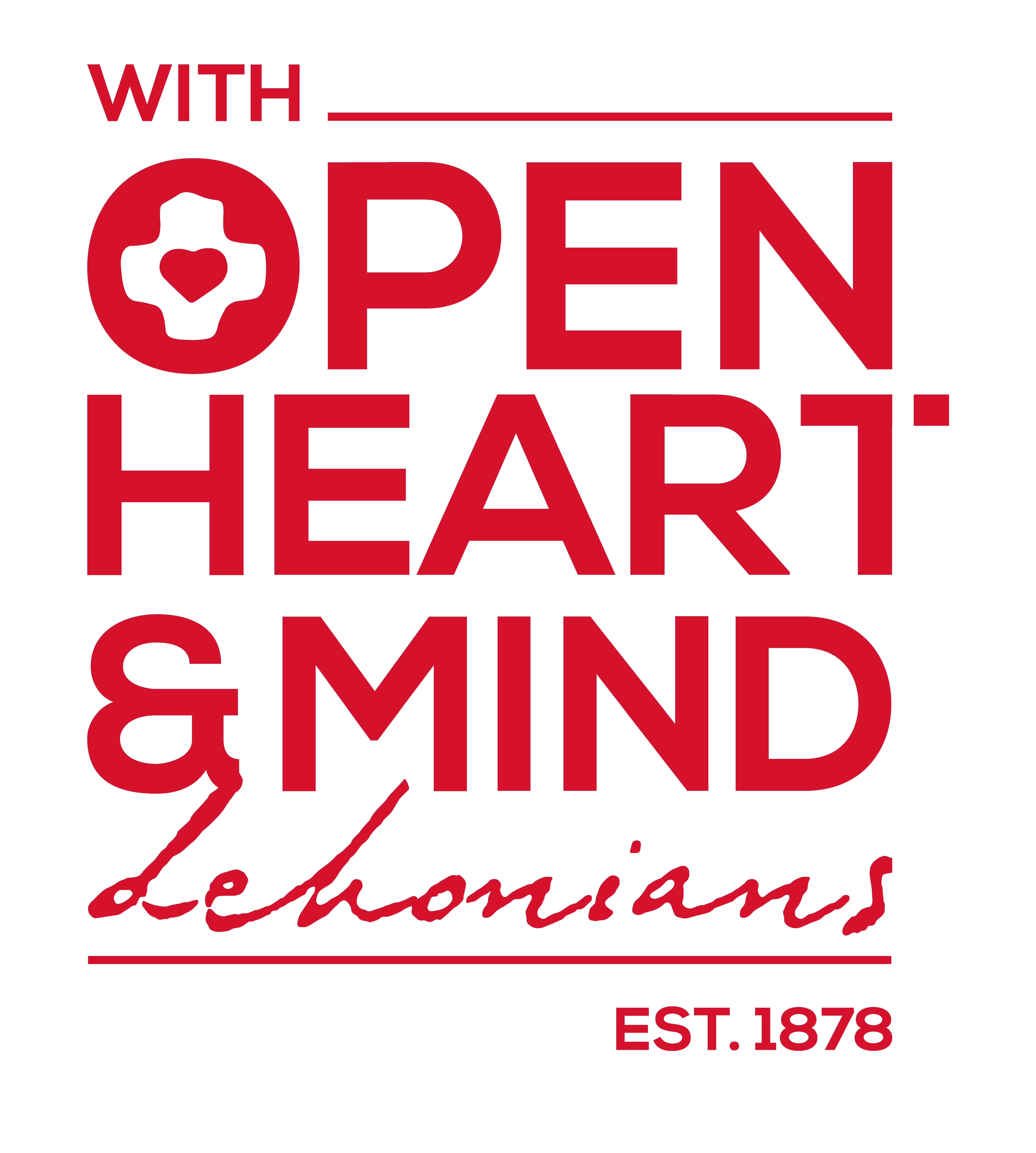 In 2017, the General Curia of the Priests of the Sacred Heart (Dehonians) approved a new Mission Statement for the worldwide congregation: Our vision: Love with open heart and mind We are witnesses of God’s transforming love in souls and society. We spread God’s love around the world with open heart and mind. Our Mission: Adveniat Regnum Tuum – Your kingdom come We are especially for people who are most in need and for the young. Our Congregation focuses on education, social work, missions, spirituality and media to announce the kingdom of God. We live in community, are inspired by daily Eucharistic Adoration, and in a fragmented world we believe unity to be possible.